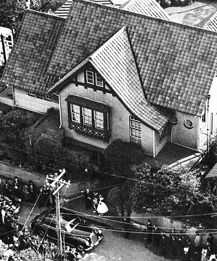 Shoda Mansion in 1958